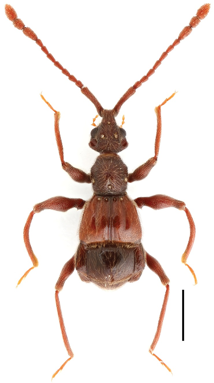 Male habitus of Labomimus sichuanicus. Scale: 1.0 mm.